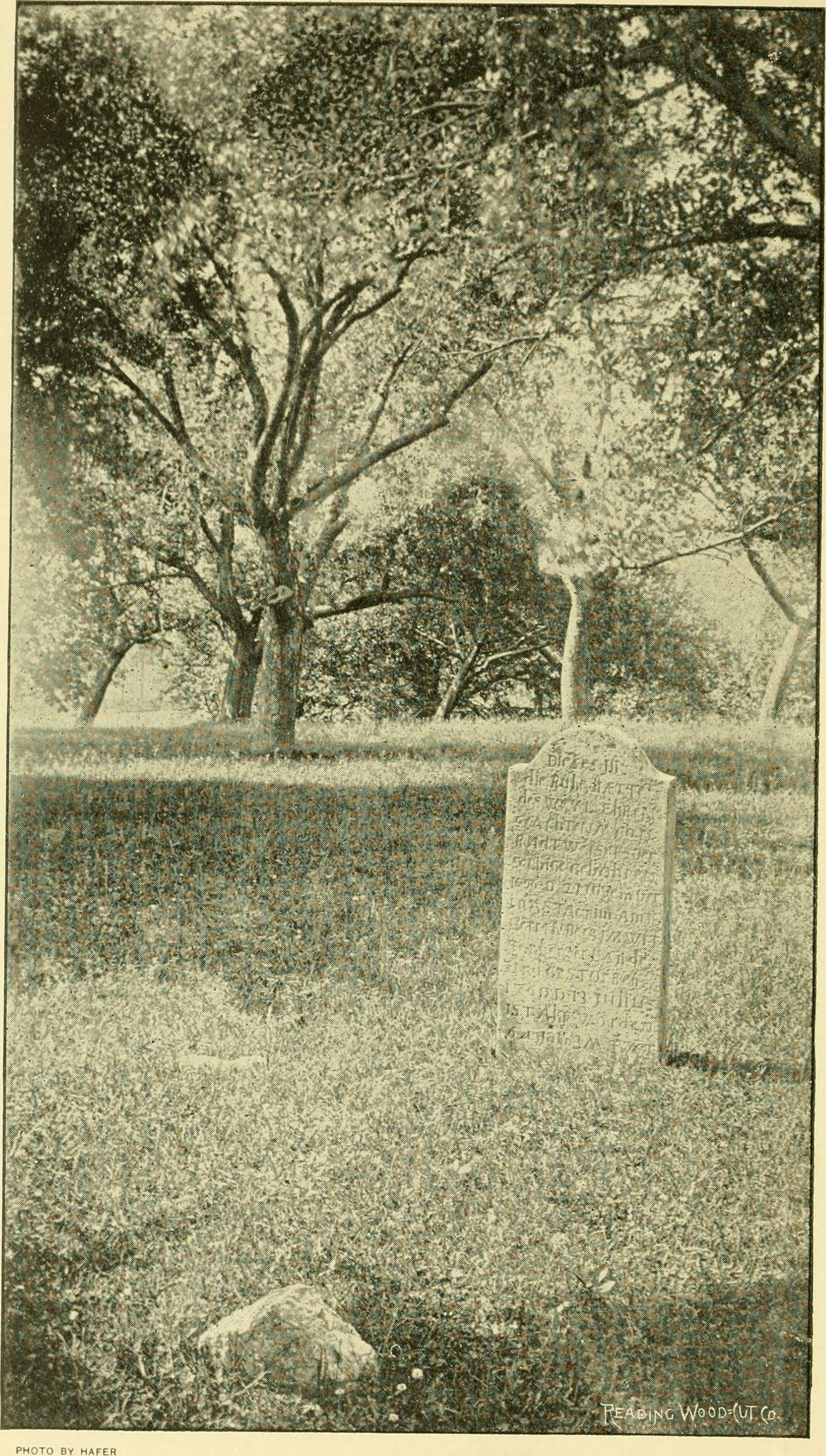 Title: Life and times of Conrad Weiser : the first representative man of Berks County Year: 1893 (1890s) Authors: Montgomery, Morton L. (Morton Luther), b. 1846 Board of Trade of Reading (Reading, Pa.) Subjects: Weiser, Conrad, 1696-1760 Monuments Publisher: Reading, Pa. : Chas. F. Haage, printer Text Appearing Before Image: ' Text Appearing After Image: GRAVE OF CONRAD WEISERnear Womelsdorf, Berks County, Pa., as it appeared in June, 1S93. WEISER MONUMENT UNDER AUSPICES OF Board of Tirade of I(eading. LIFE AND TIMES OF mUD WEISER, THE FIRST REPRESENTATIVE MAN OF BERKS COUNTY, BY MORTON L MONTGOMERY.II READING, PA.:Chas. F. Haage, Printer, Seventh and Court Streets. ARTIFICIAL TEETH